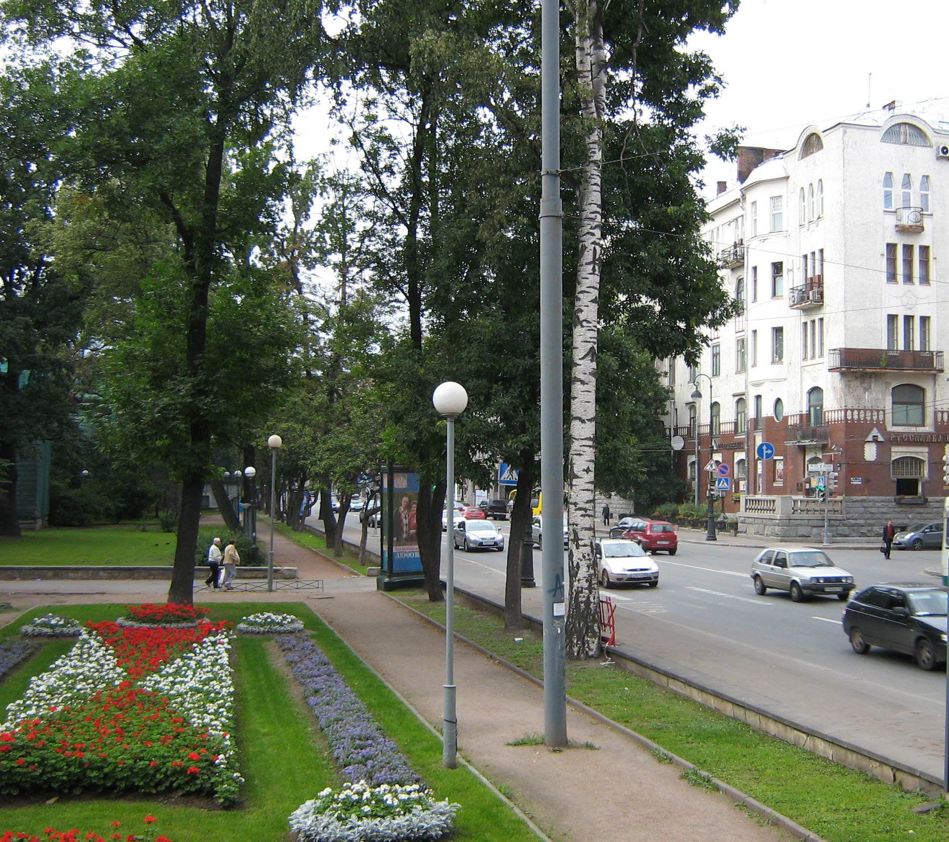 Anikushin Garden in Kamennoostrovsky Prospekt (Saint-Petersburg, Russia).